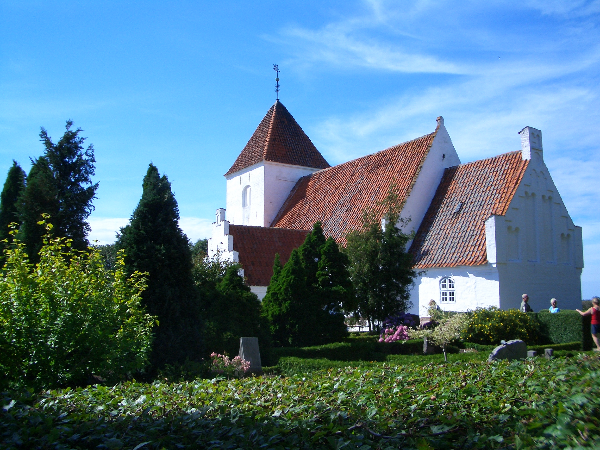 The church on Femo, an island from Denmark